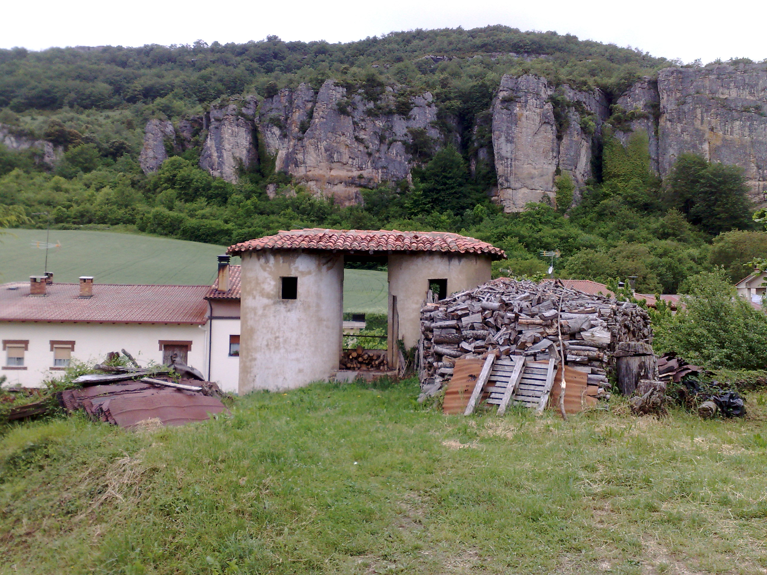 Detail in Sabando and place called Atxarte, Arraia-Maeztu, Araba, Basque Country.